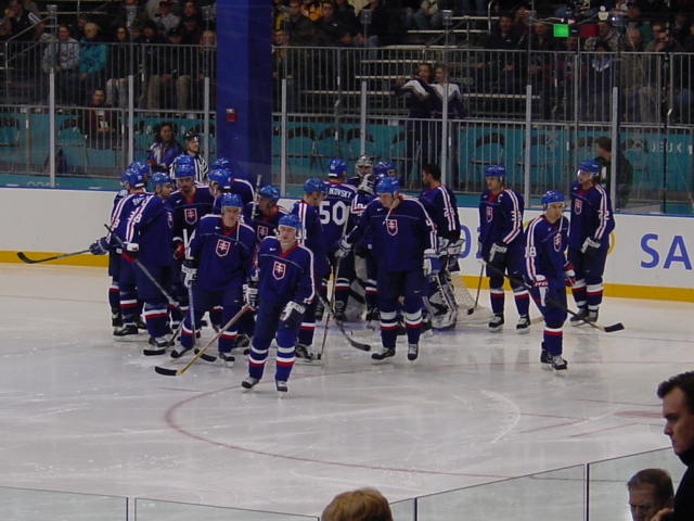 The Slovakia men's ice hockey team during a game against France at the 2002 Winter Olympics.